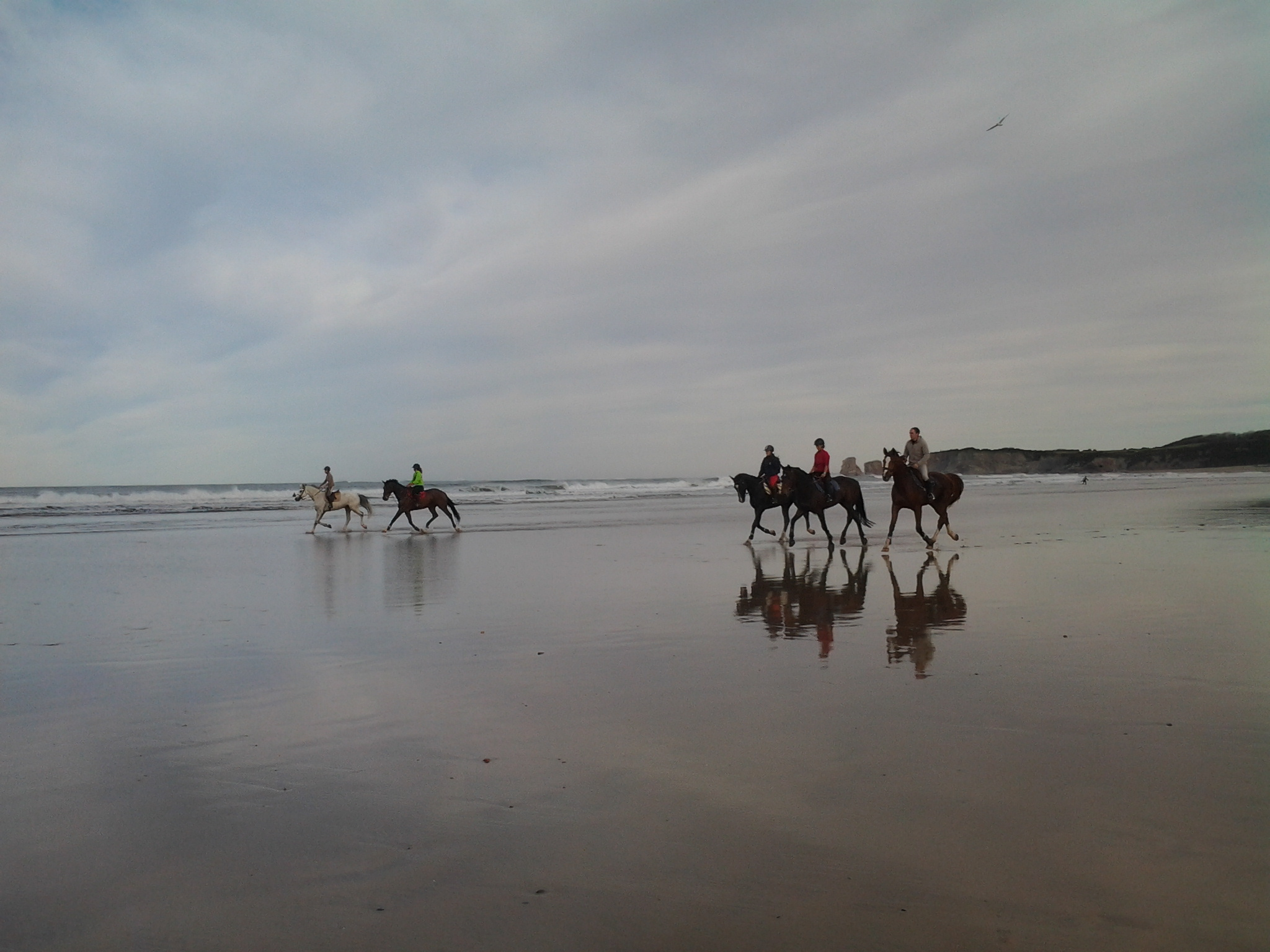 Horses in beach of Hendaye.